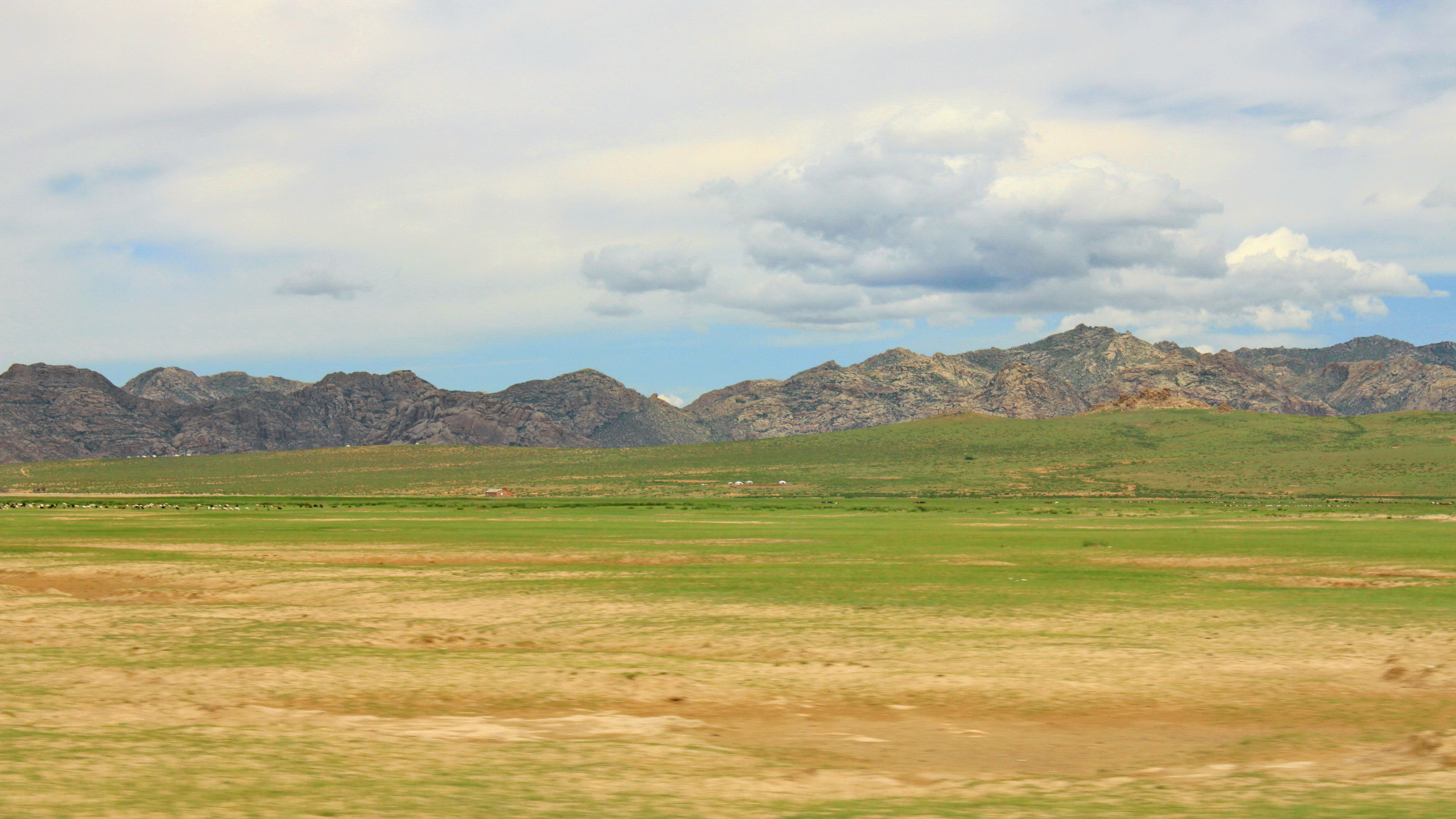 Views of Mongolian landscape seen from the Kharkhorin - Ulan Bator minibus.